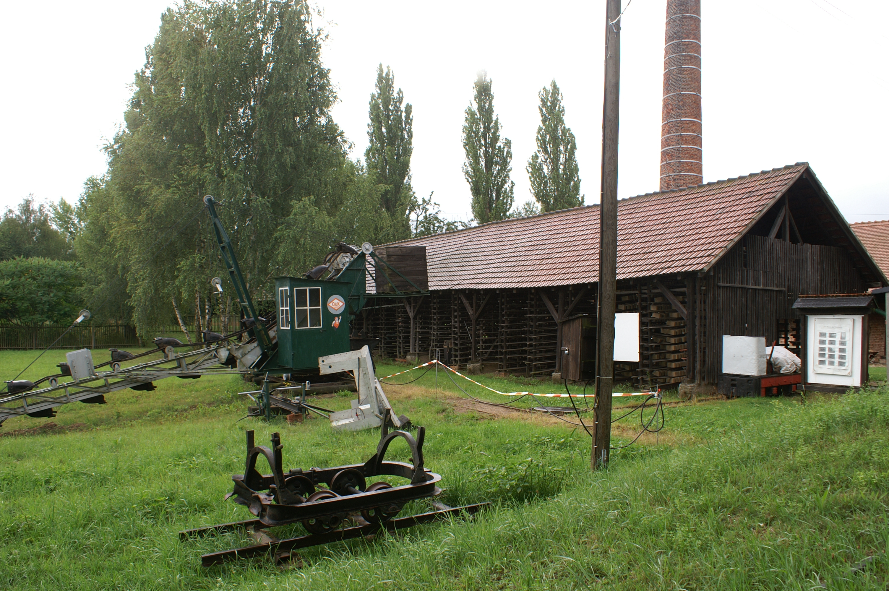 brickworks